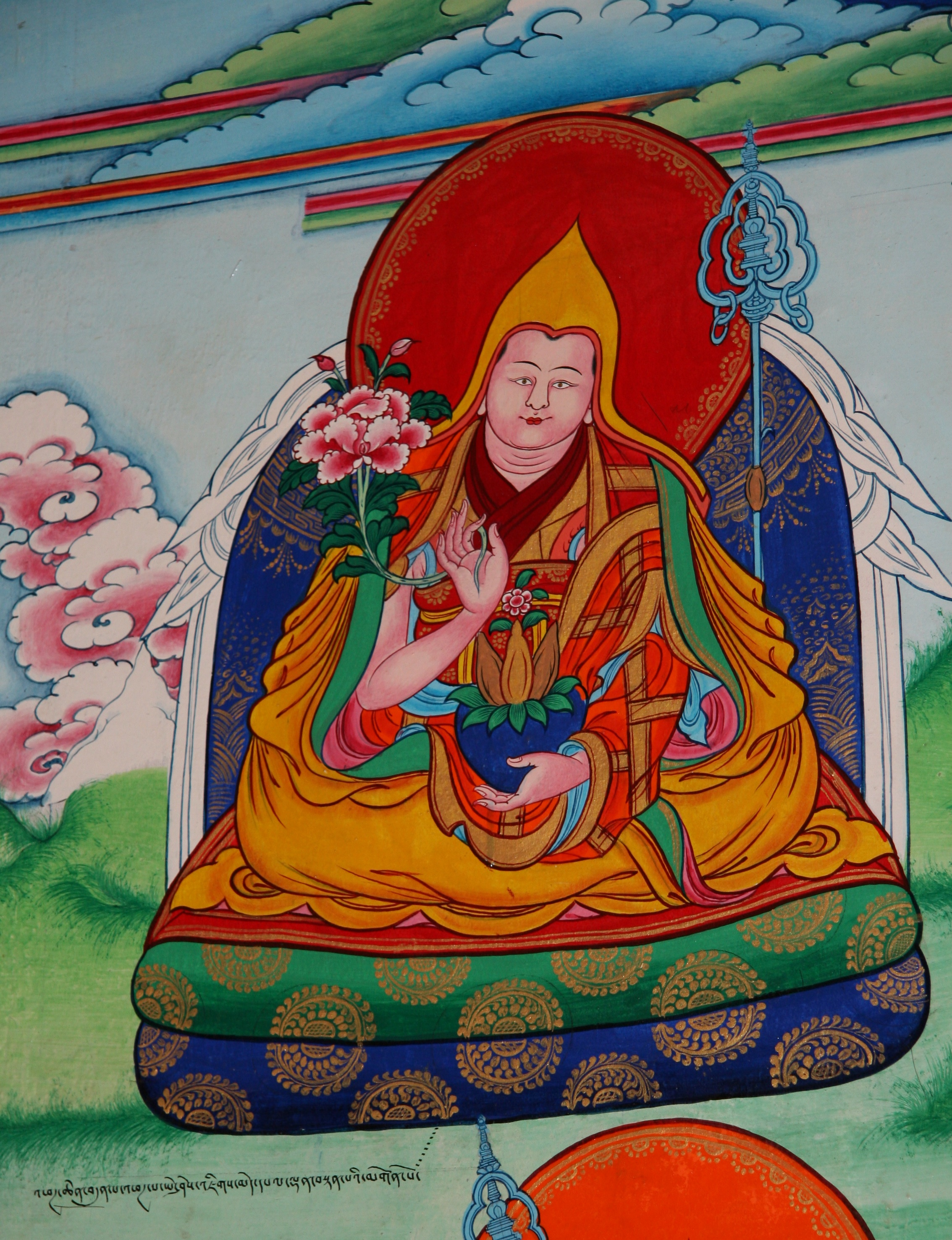 The Seventh Pakpa Lha, Jigme Tenpai Gonpo b.1755 - d.1794